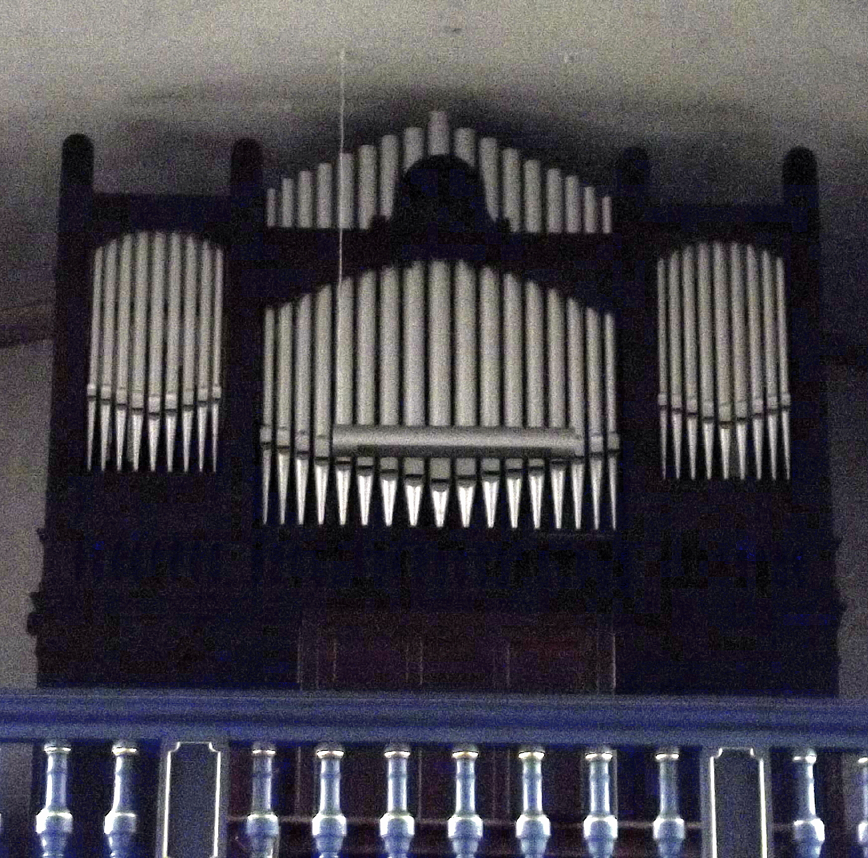 Hock-organ of the church in Wahlen, Saarland, Germany